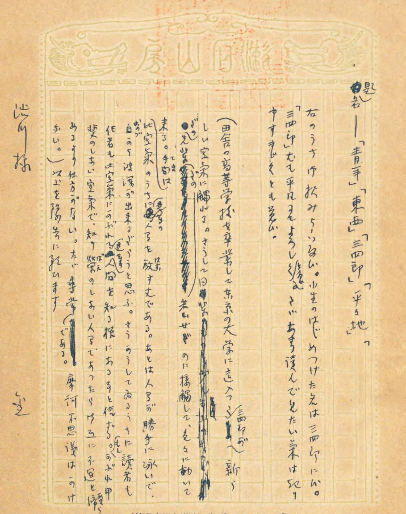 Part of manuscripts of "Sanshirō" by Natsume Soseki.